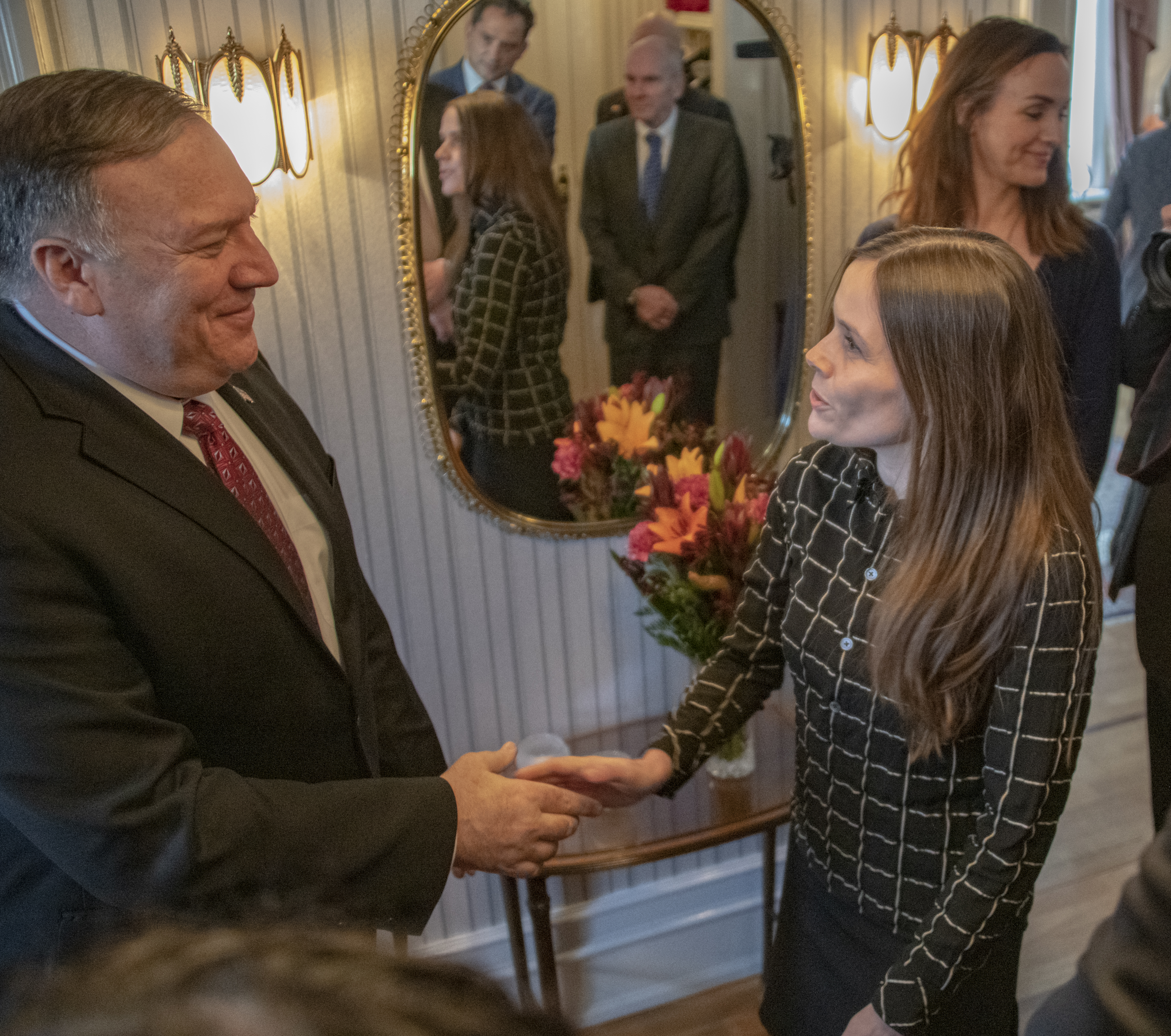 U.S. Secretary of State Michael R. Pompeo meets with Iceland Prime Minister Katrin Jakobsdottir in Reykjavik, Iceland on February 15, 2019. [State Department photo by Ron Przysucha/ Public Domain]